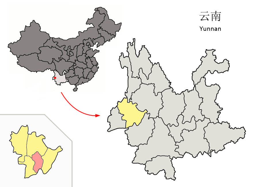 Location of Shidian County (pink) and Baoshan Prefecture (yellow) within Yunnan province of China Map drawn in september 2007 using various sources, mainly : Yunnan province administrative regions GIS data: 1:1M, County level, 1990 Yunnan Counties map from